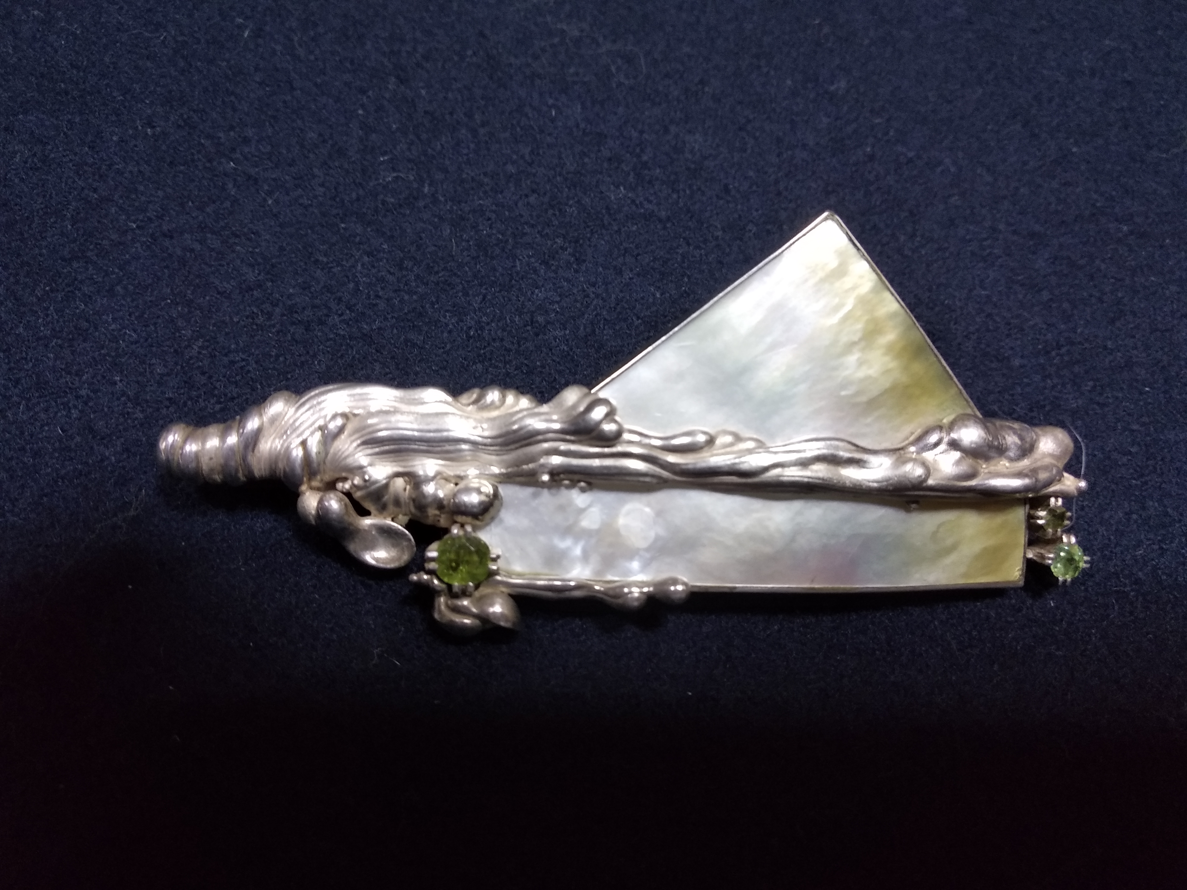 Brooch "Dune"